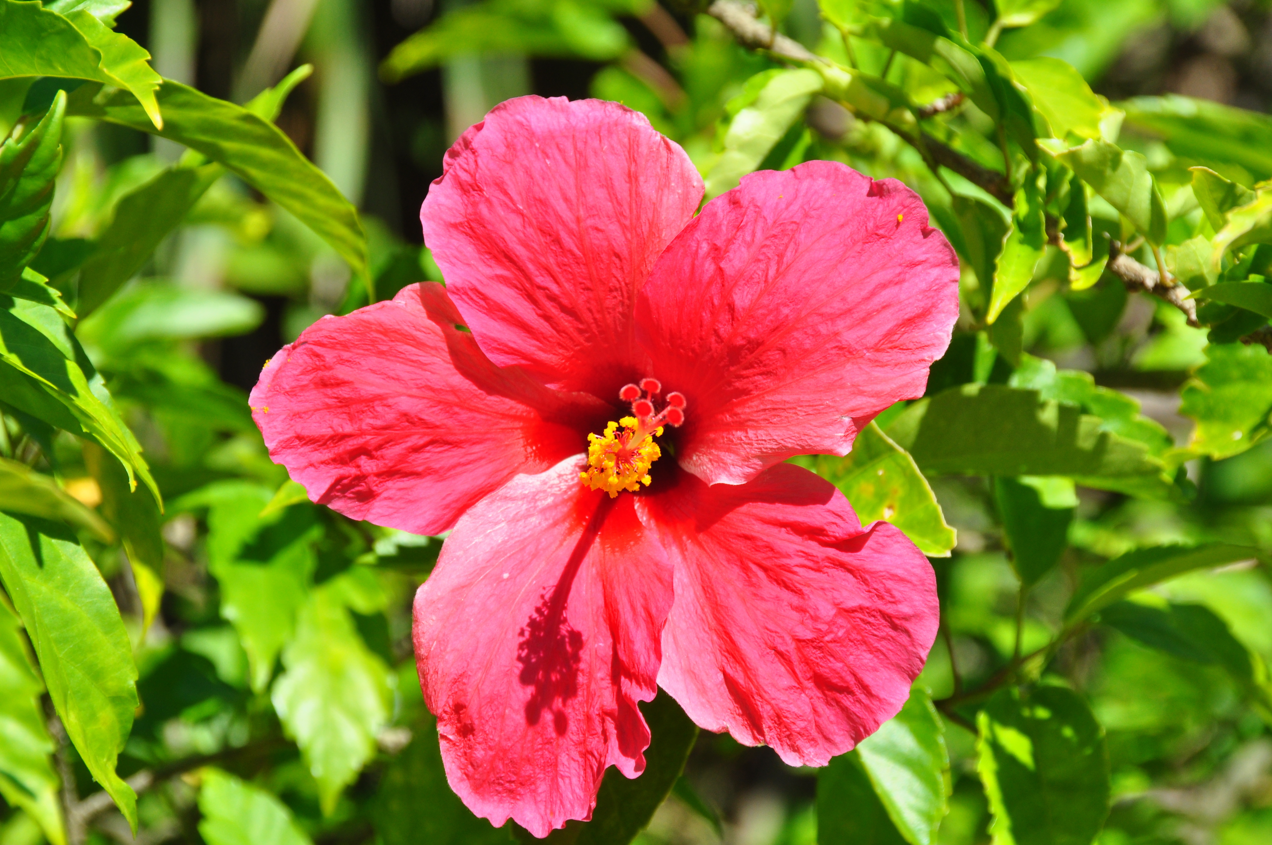 Is in full bloom hibiscus flower.